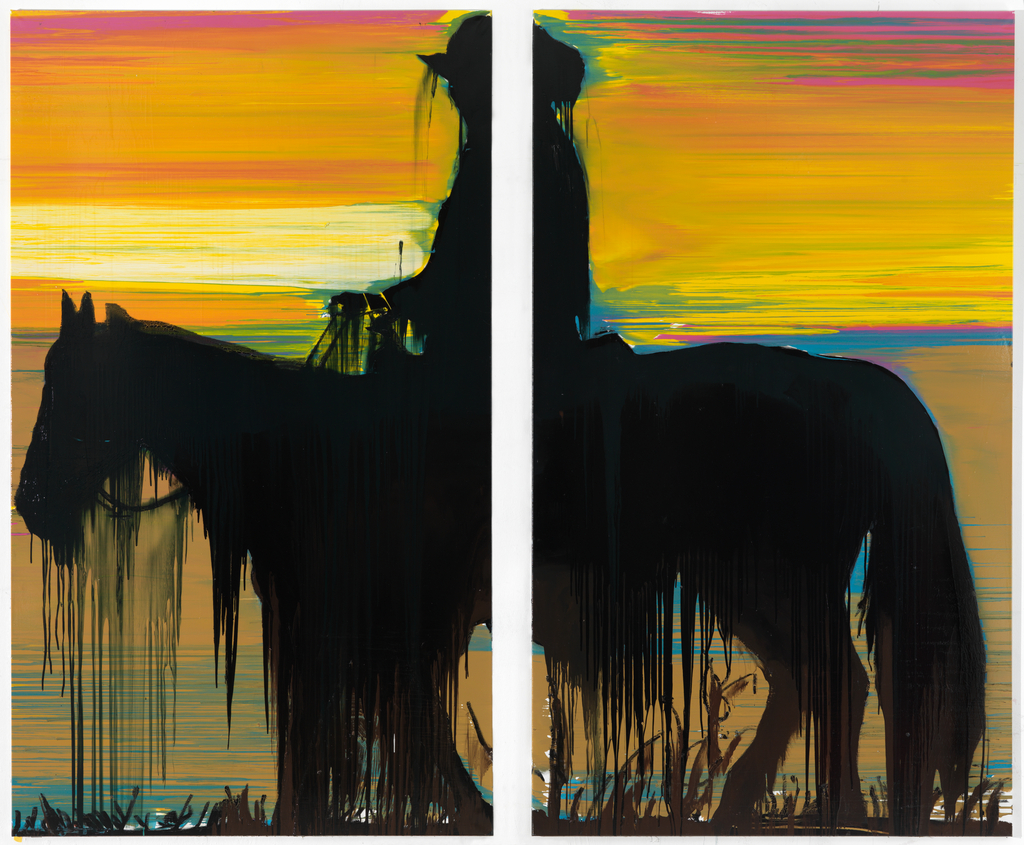 Tatjana Doll, AD Fe Real, 2010, enamel on canvas, 300 x 350 cm